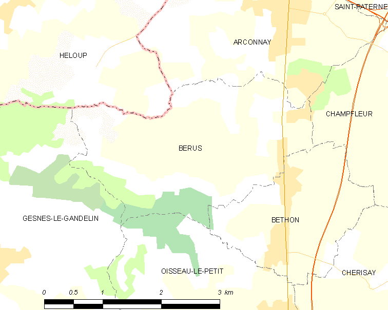 Map of French municipality